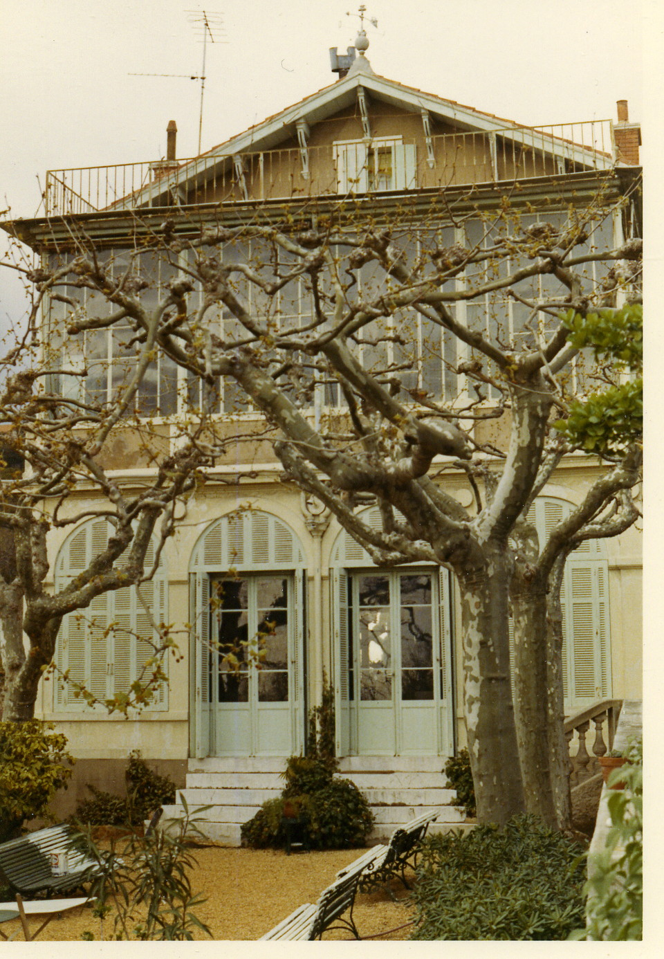 Villa of Jean-Vital Jammes in Marseille. The main facade in the 1980's